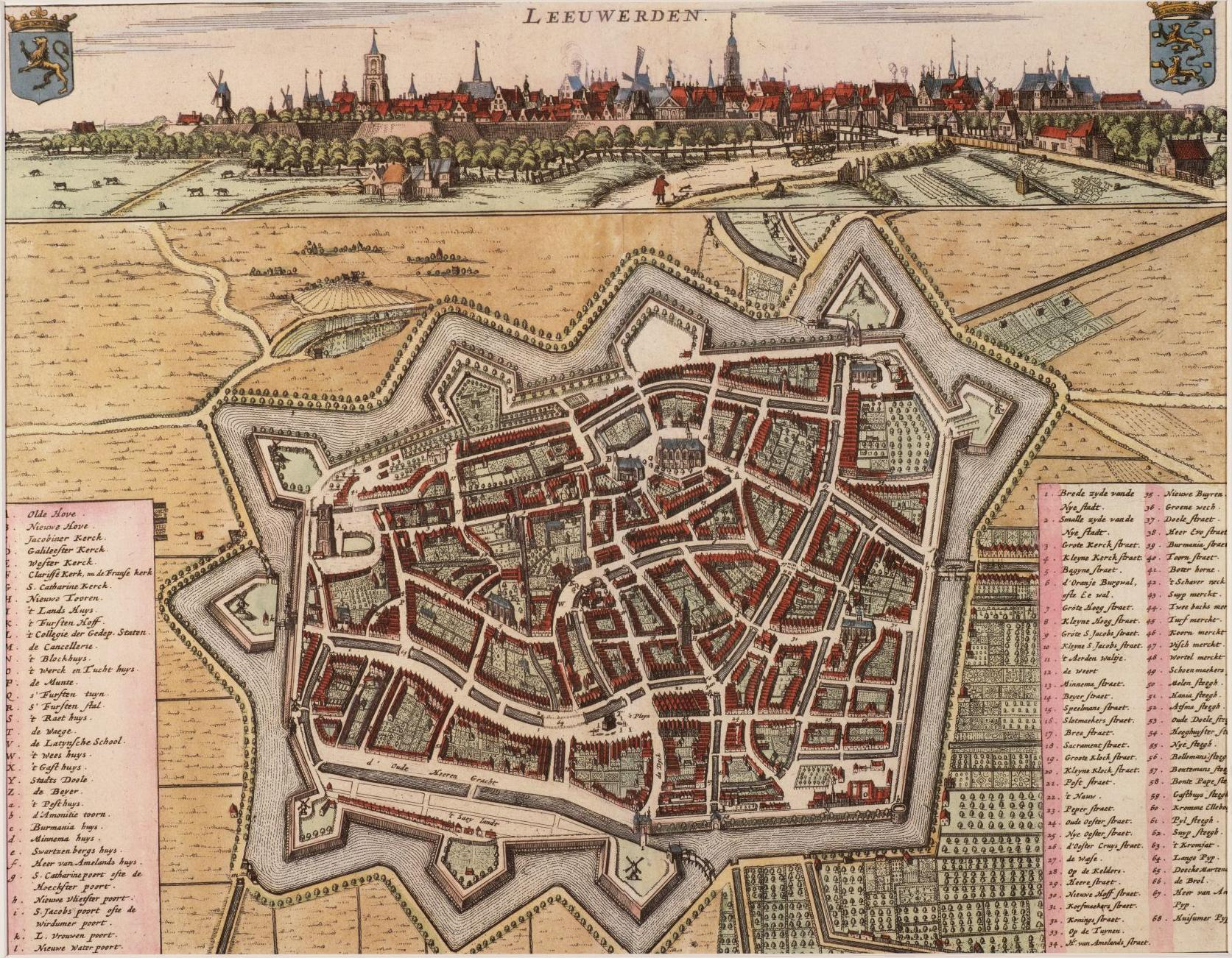 Elf reproducties van Friese stadsplattegronden uit de Beschrijving van Heerlijkheydt van Friesland door Bernardus Schotanus à Sterringa uitgegeven in 1664 Leeuwarden